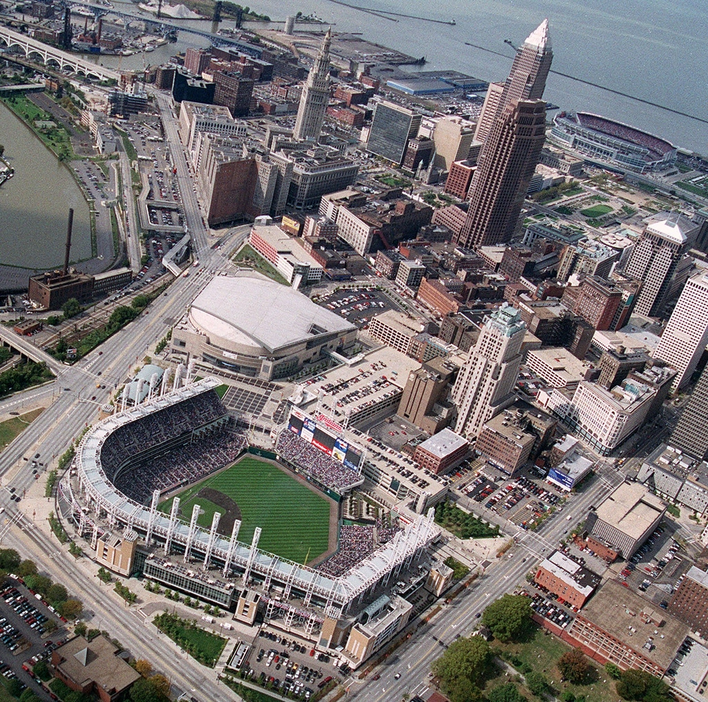 Aerial of downtown Cleveland on October 3, 1999. Jacobs Field can be seen in the foreground with Gund Arena adjacent to the left of center. The new Cleveland Browns Stadium is to the upper right in the photo. This marked the first time both stadiums were used simultaneously. 43,012 were in attendance at Jacobs Field for the Cleveland Indians vs. Toronto Blue Jays game while 72,368 watched the Cleveland Browns play the New England Patriots (Photo/Paul M. Walsh)